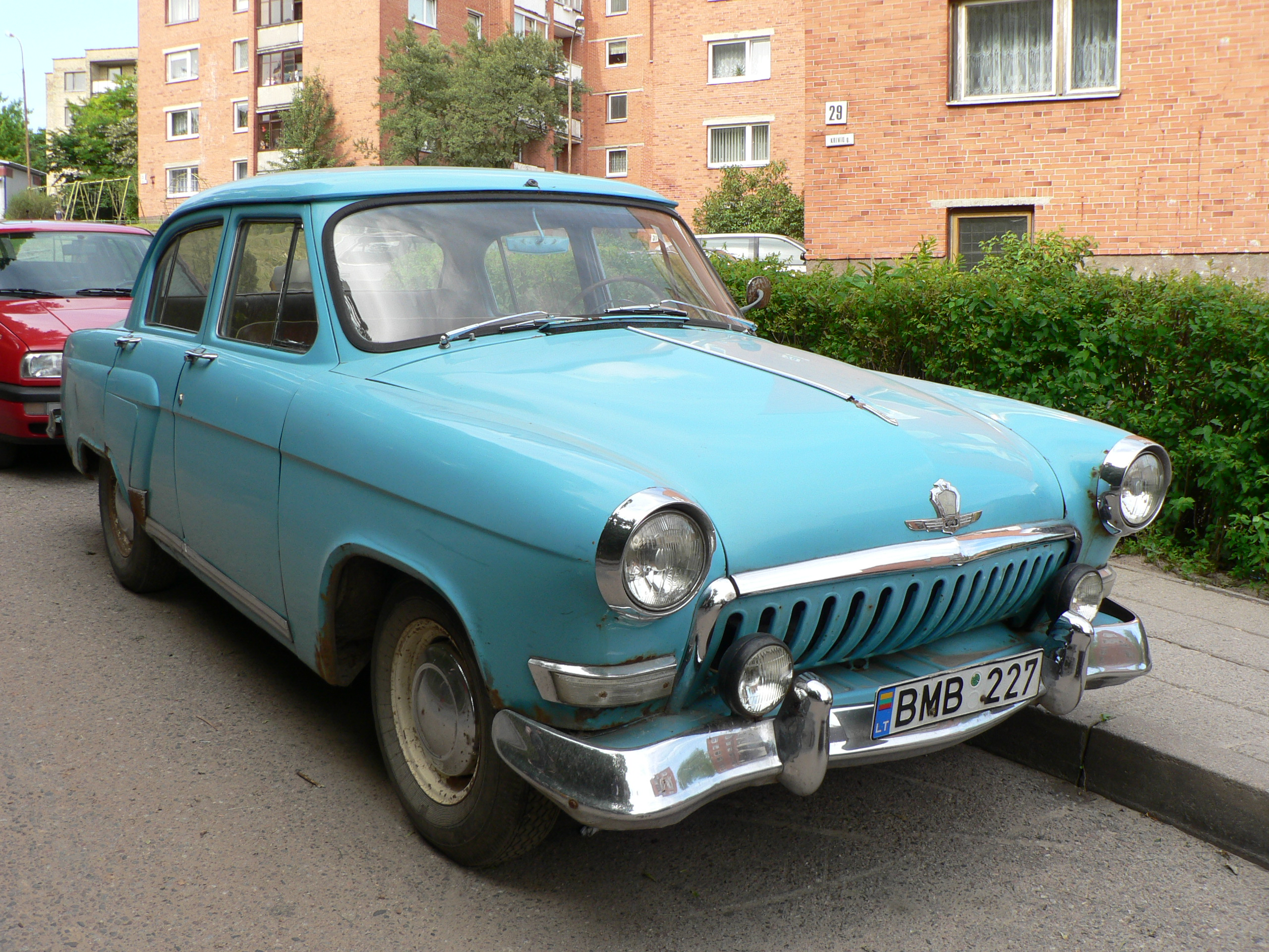 GAZ-21 "Volga: automobile.